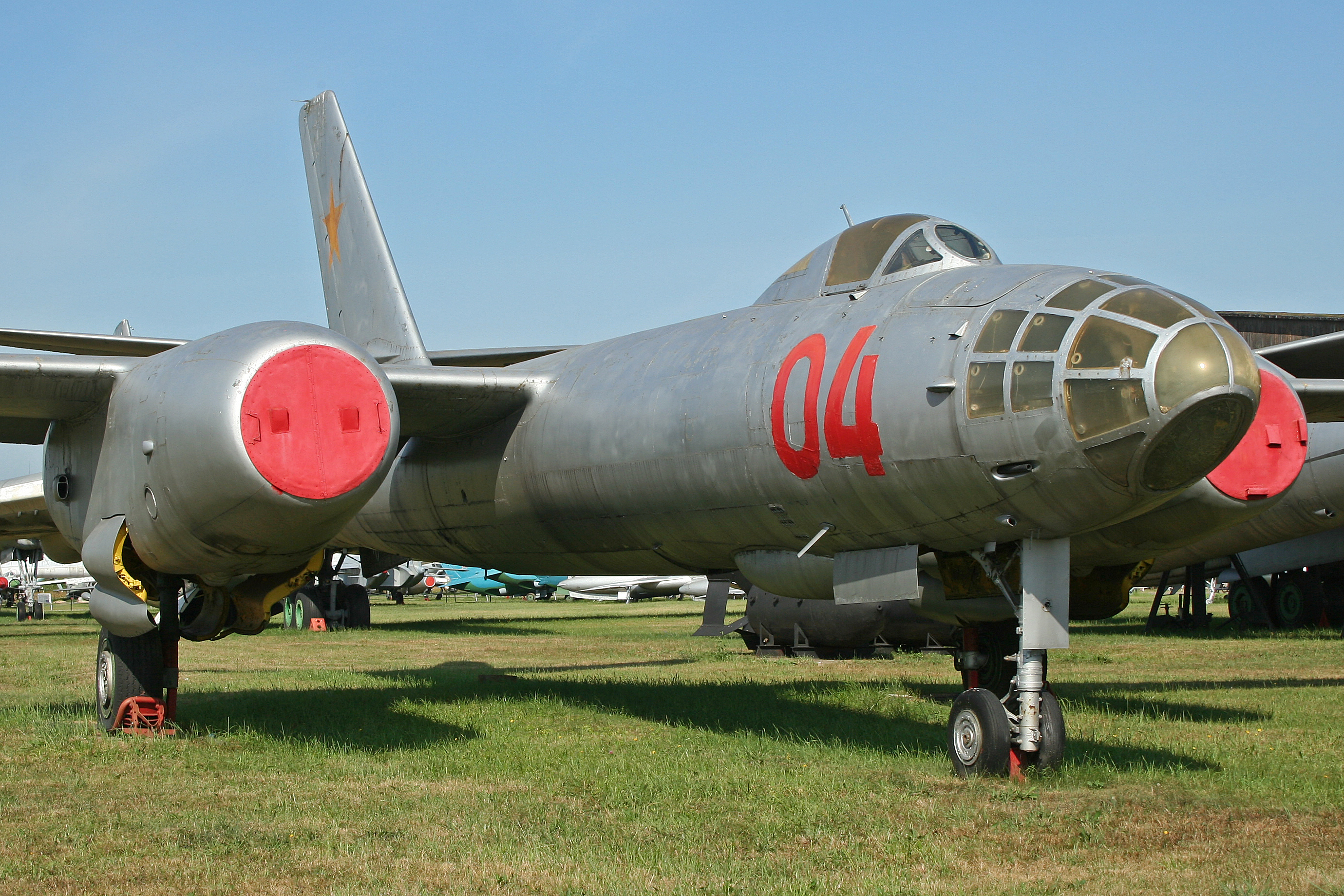 The IL-28 was the first successful Soviet jet bomber. It first flew in 1948 and at least 6,700 were built. This is the basic three-seat bomber version. c/n 53005771. Russian Air Force Museum. Monino, Russia. 13-8-2012